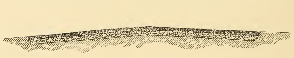 Caption: Modern Macadam Road taken from City roads and pavements (1902), page 16